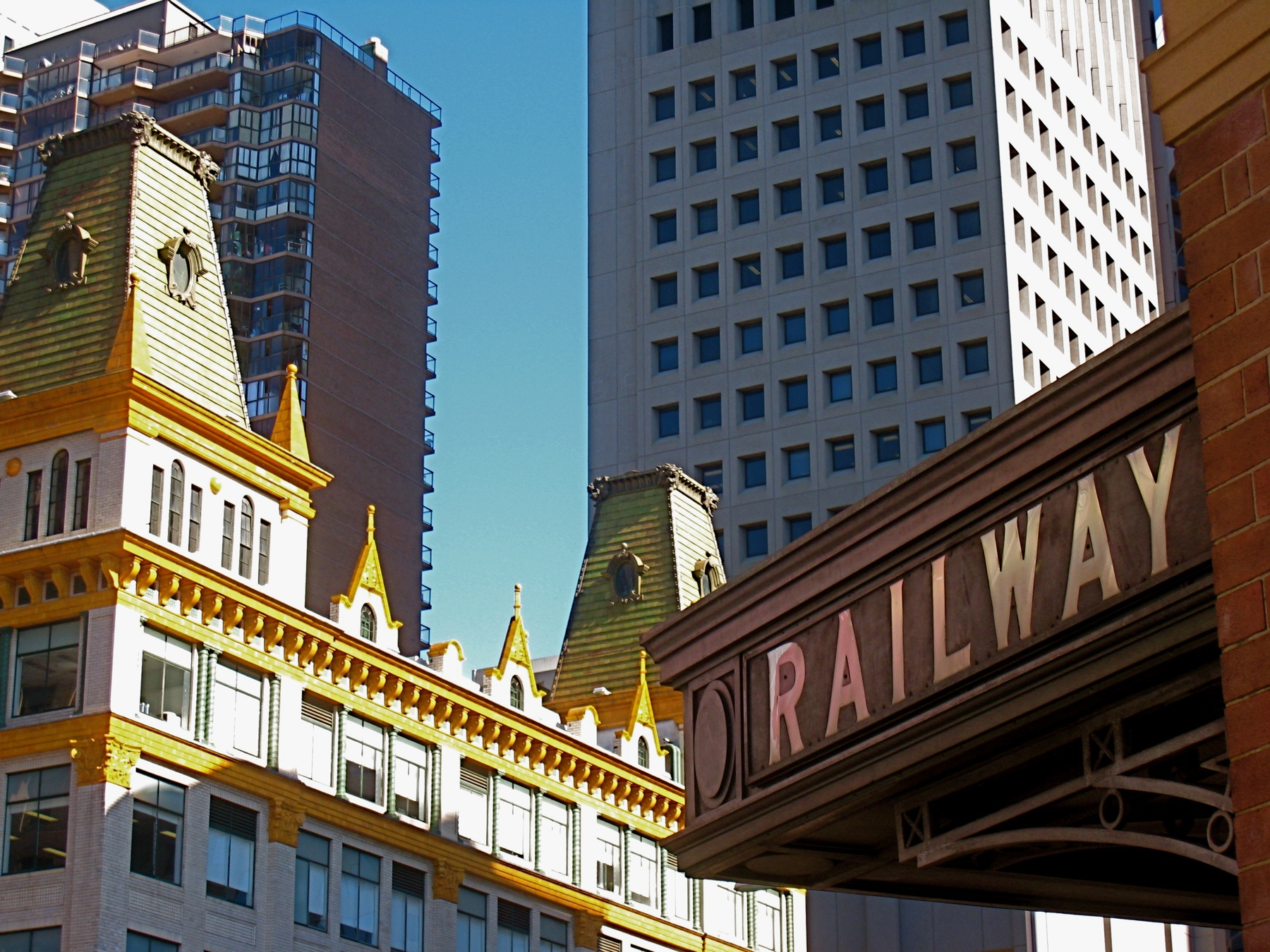 Hyde Park